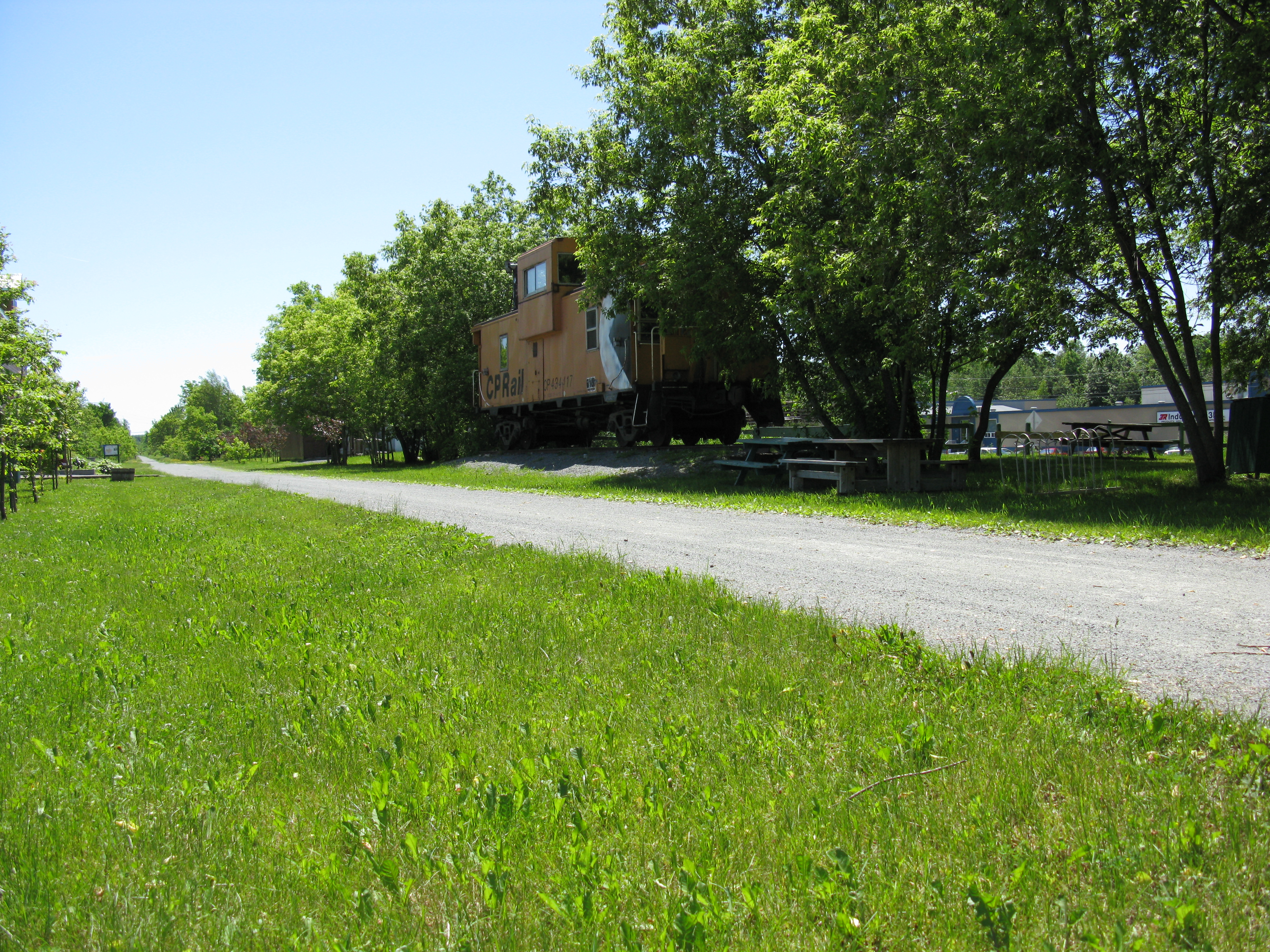 This is the location where the Danville train station used to be on Depot street. The railroad track has been replaced with the 'route verte' biking trail and the station has been destroyed. This is where, on June 9th 1866, Private Timothy O'Hea of the 1st Battalion of the Prince Consort’s Own Rifle Brigade singlehandedly put out a fire in a munitions car, earning him the Victoria Cross.